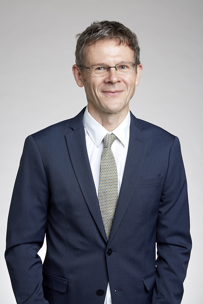 Timothy Richard Elliott FRS is an earth scientists and Professor at the University of Bristol Attribution: The Royal Society